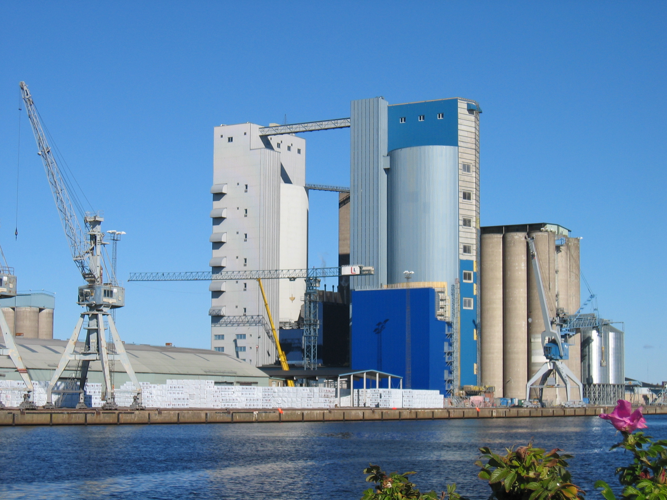 Viking Malt AB